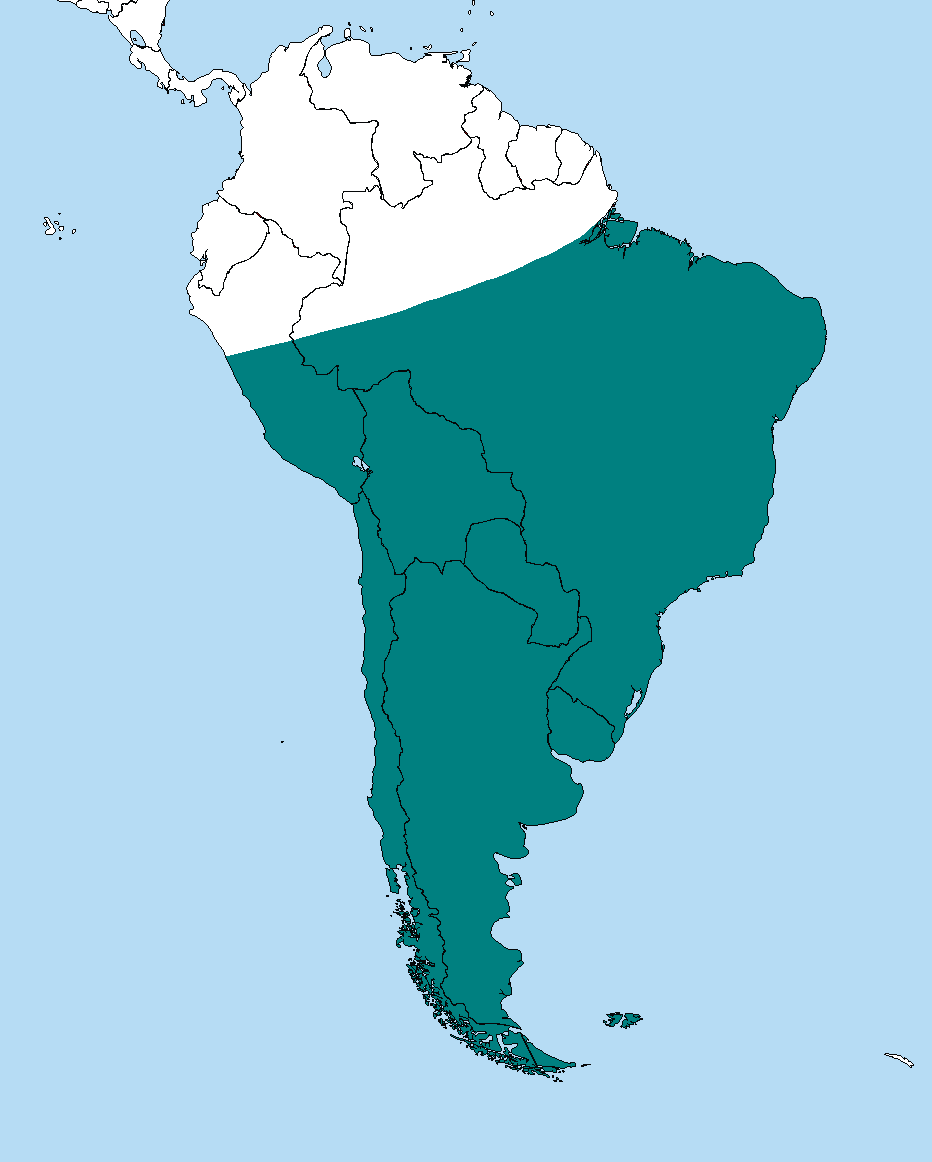 Distribution map of Caracara plancus. Sources: Dove, C. J., & Banks, R. C. (1999). A taxonomic study of crested caracaras (Falconidae). Wilson Bull. 11 l(3): 330-339; regional field guides.